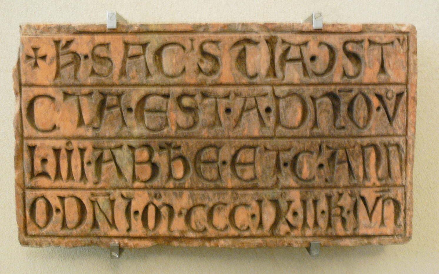 Inscription about the construction and dedication of the sacristy in Thierhaupten; Swabia 1309; terracotta; from Thierhaupten Abbey Transcription (including solution of abbreviations): Haec sacristia constructa est a domino Ulrico IIIo abbate et consecrata anno Domini MCCCIXo II kal. Junii Bayerisches Nationalmuseum München, Inv. MA 318, vor 1868 aus dem Kgl. Antiquarium überwiesen